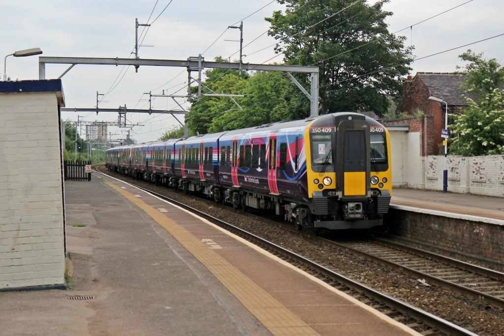 First TransPennine Class 350, 350409, Patricroft railway station